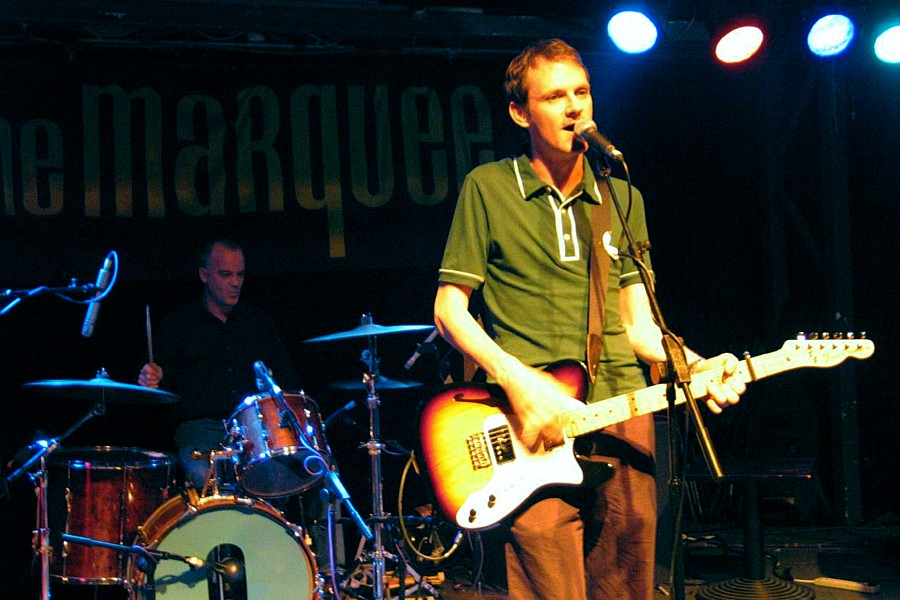 Ballboy at the Marquee Club in London, england